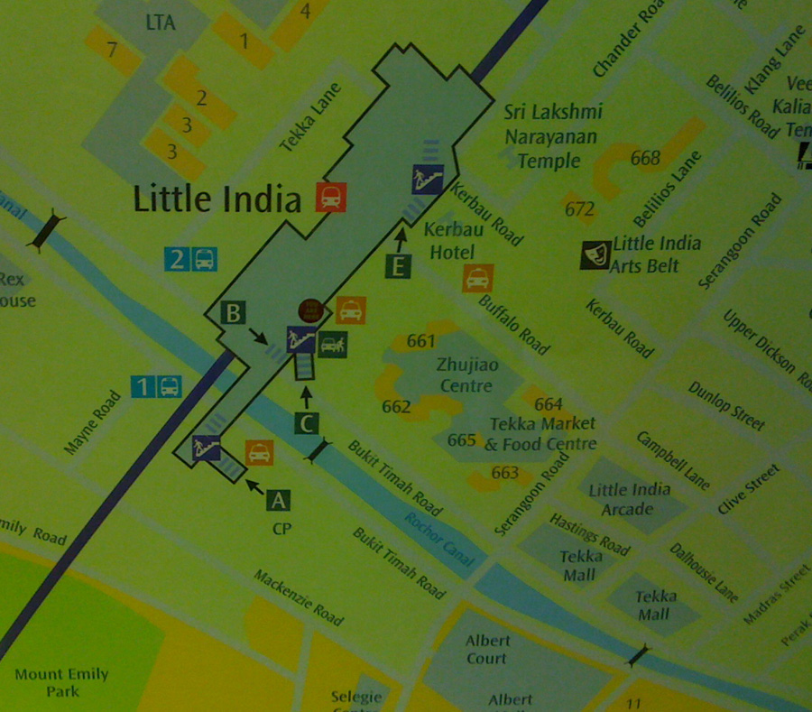 Station exits at Little India MRT, Singapore